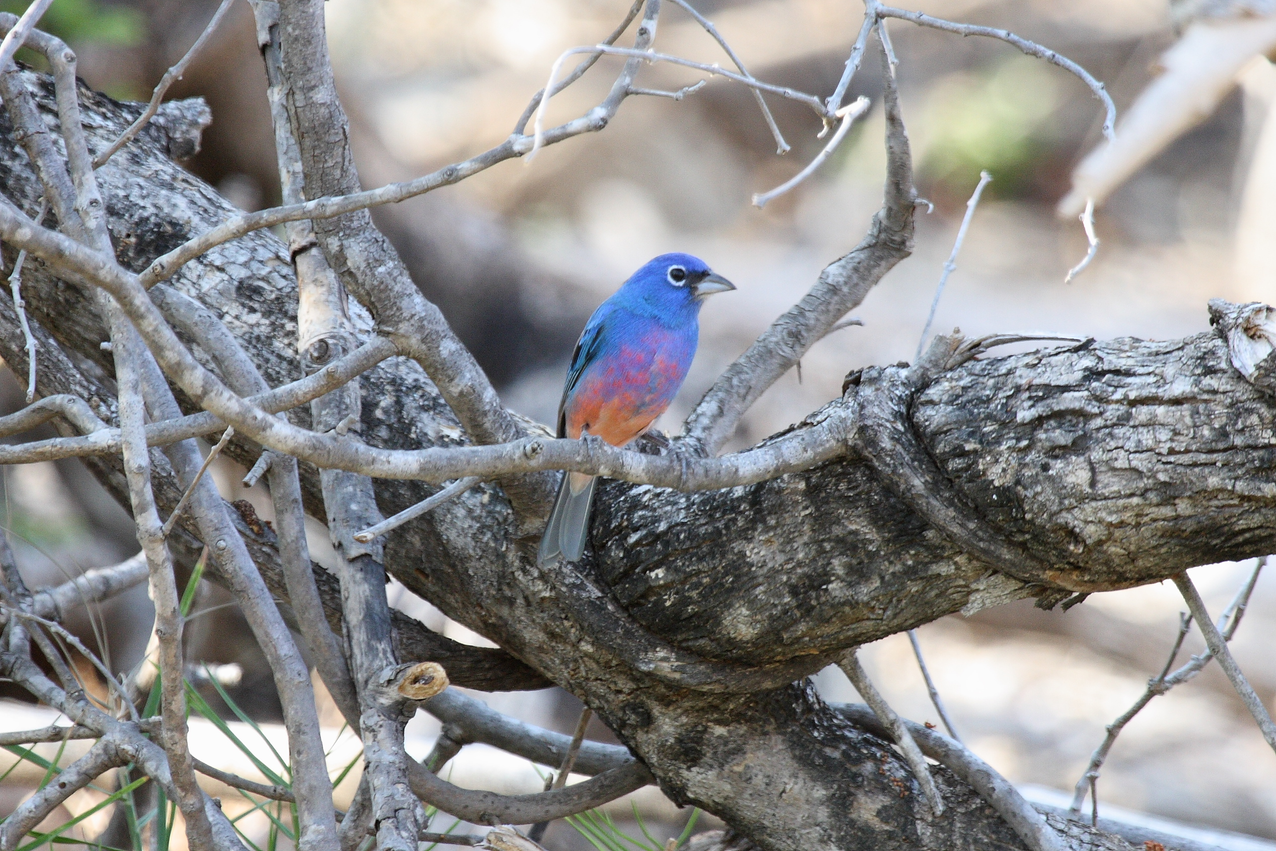 Rose-bellied Bunting - Passerina rositae